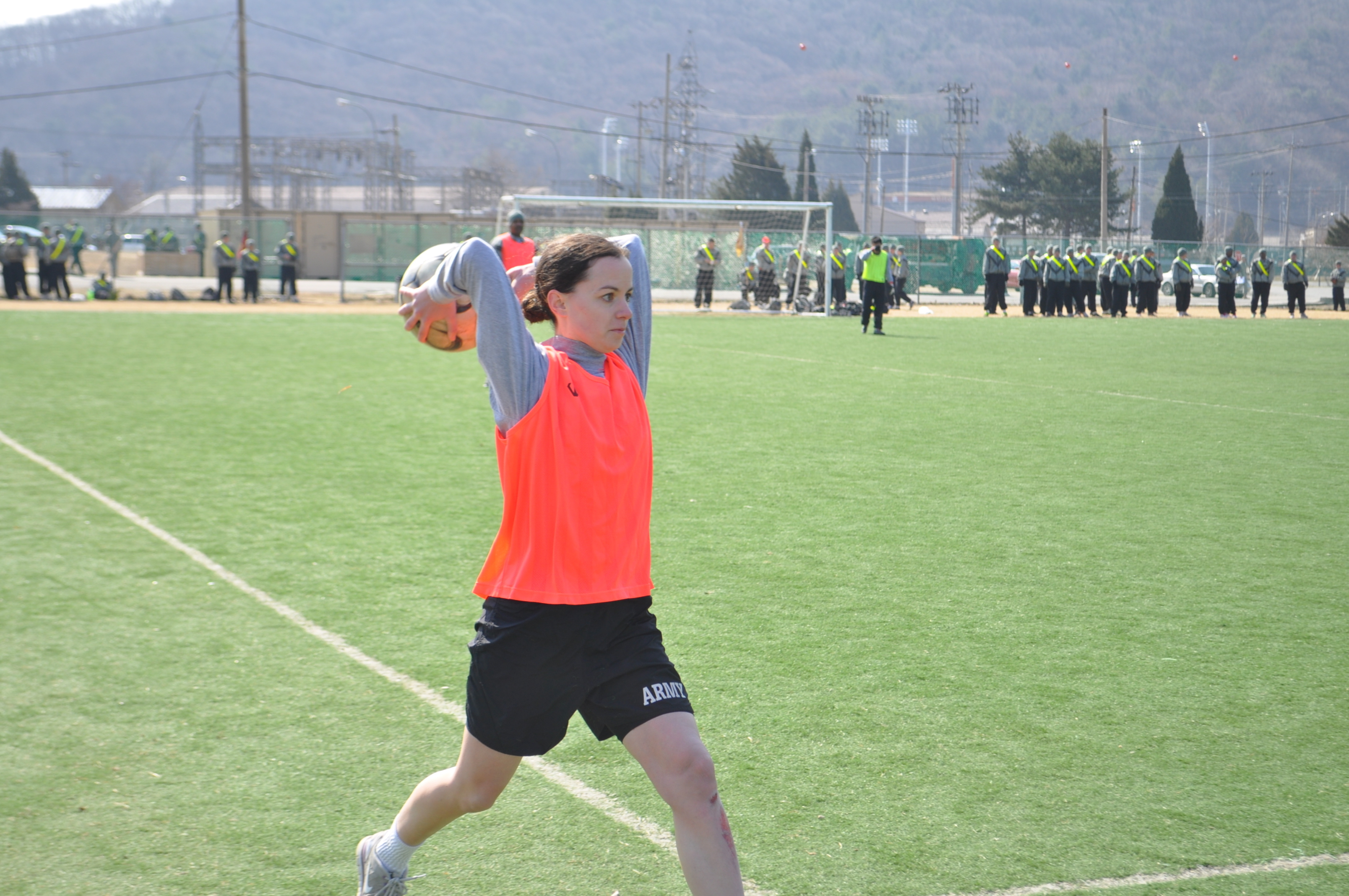 A U.S. Soldier assigned to the 210th Fires Brigade performs a throw-in during a Warrior Friendship Week soccer game at Camp Casey in Gyeonggi province, South Korea, March 25, 2013.